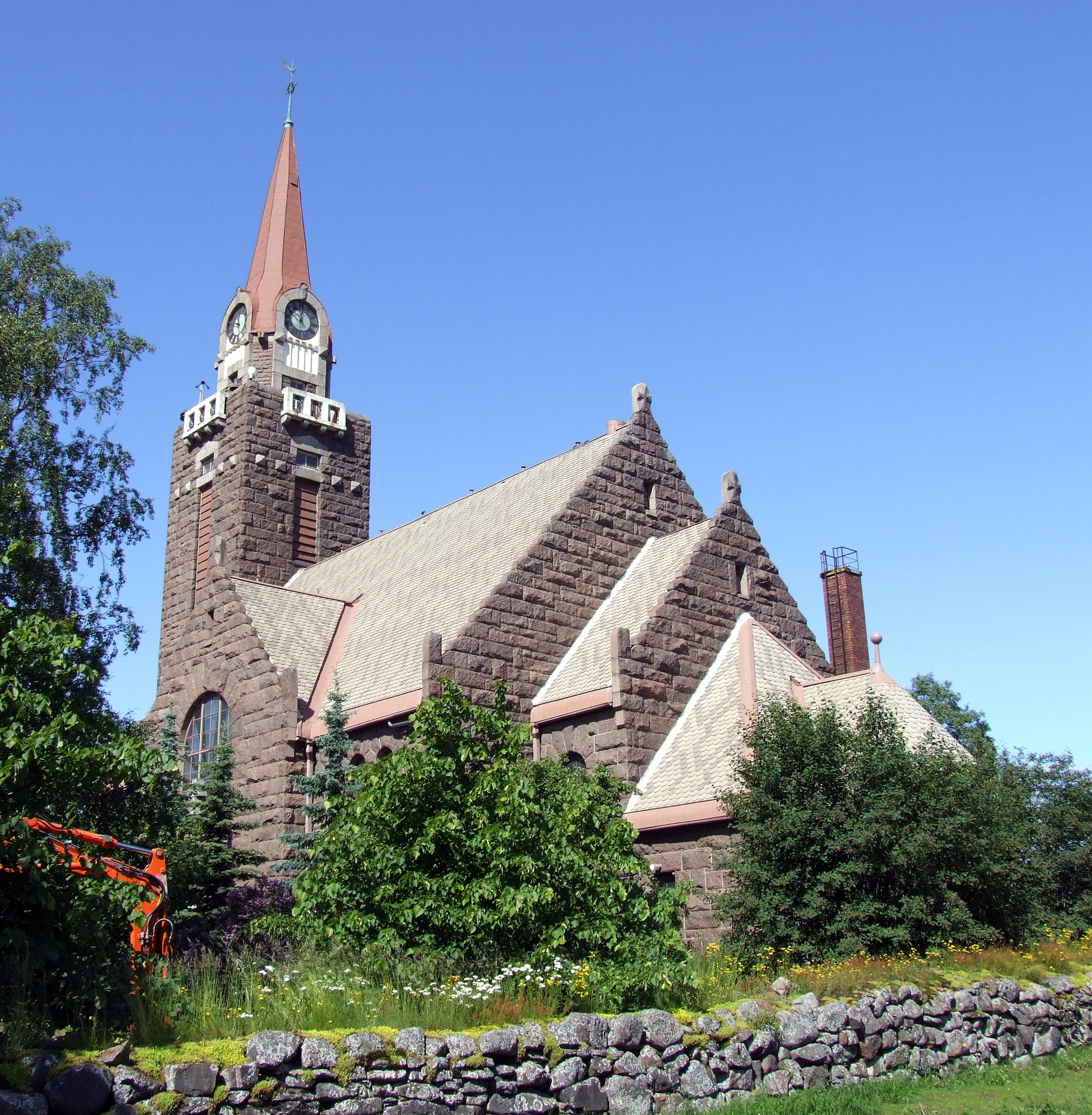 Raahe church in Raahe, Finland. The church of national-romantic style was designed by architect Josef Stenbäck and built in 1909–1912.